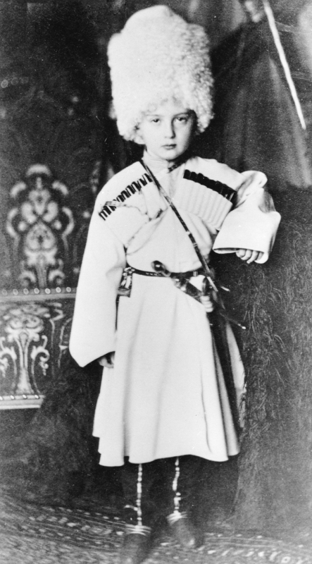 Grand Duke Nicholas Mihkailovich during his childhood